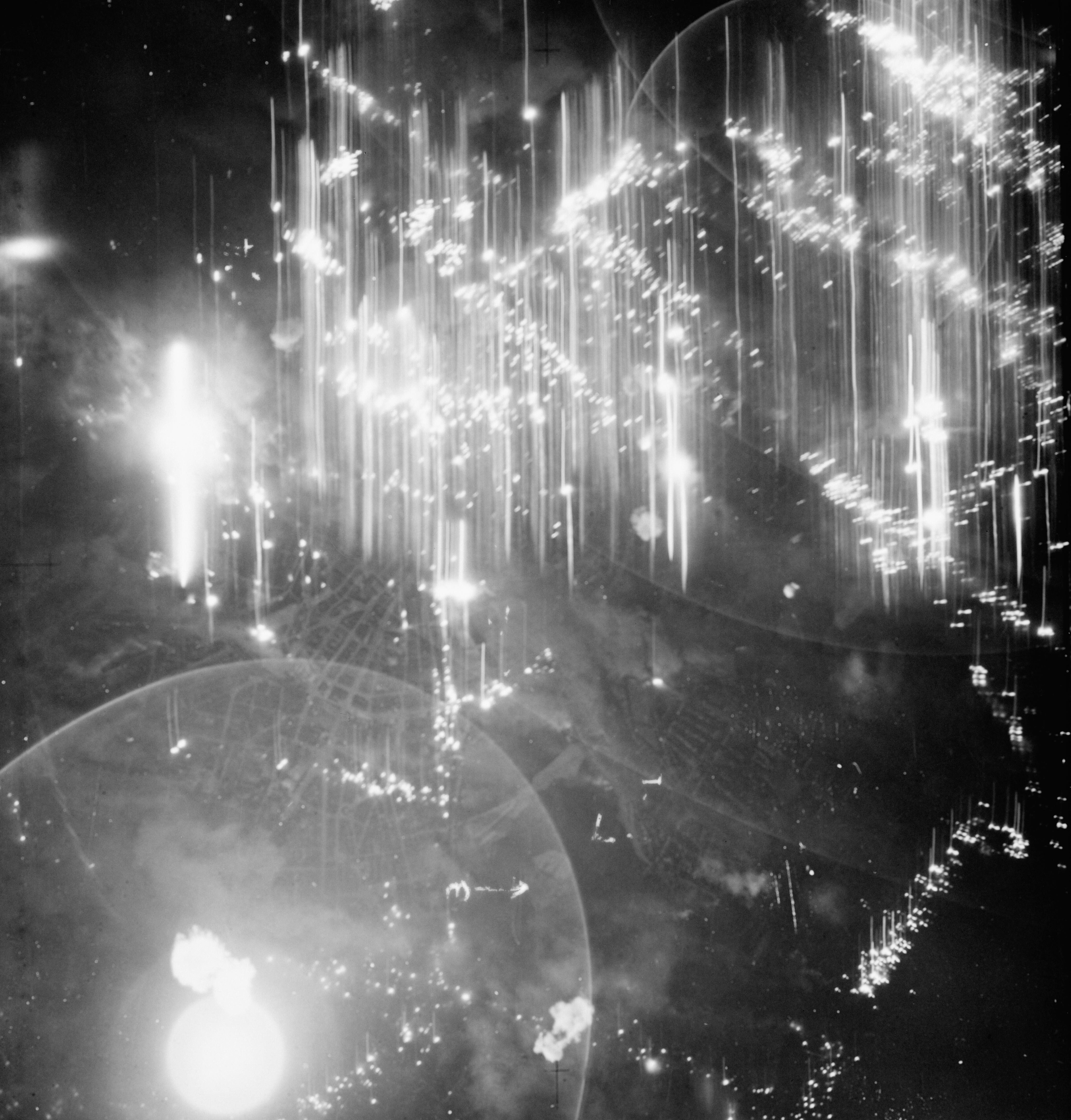 Royal Air Force Bomber Command, 1942-1945. Annotated vertical aerial taken during the night raid on Hamburg of 24/25 July 1943. Sticks of incendiaries are burning in the Altona and Dock districts (top, '4'). A photoflash bomb at lower left has illuminated the camouflaged Binnen Alster ('2'), and the Aussen Alster ('1') on which a flak position has been built ('3').